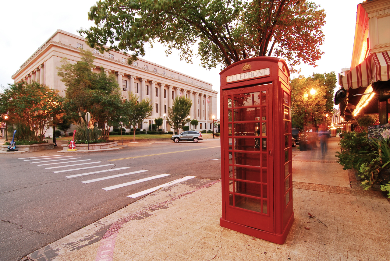 Main Street El Dorado in Oct 2011